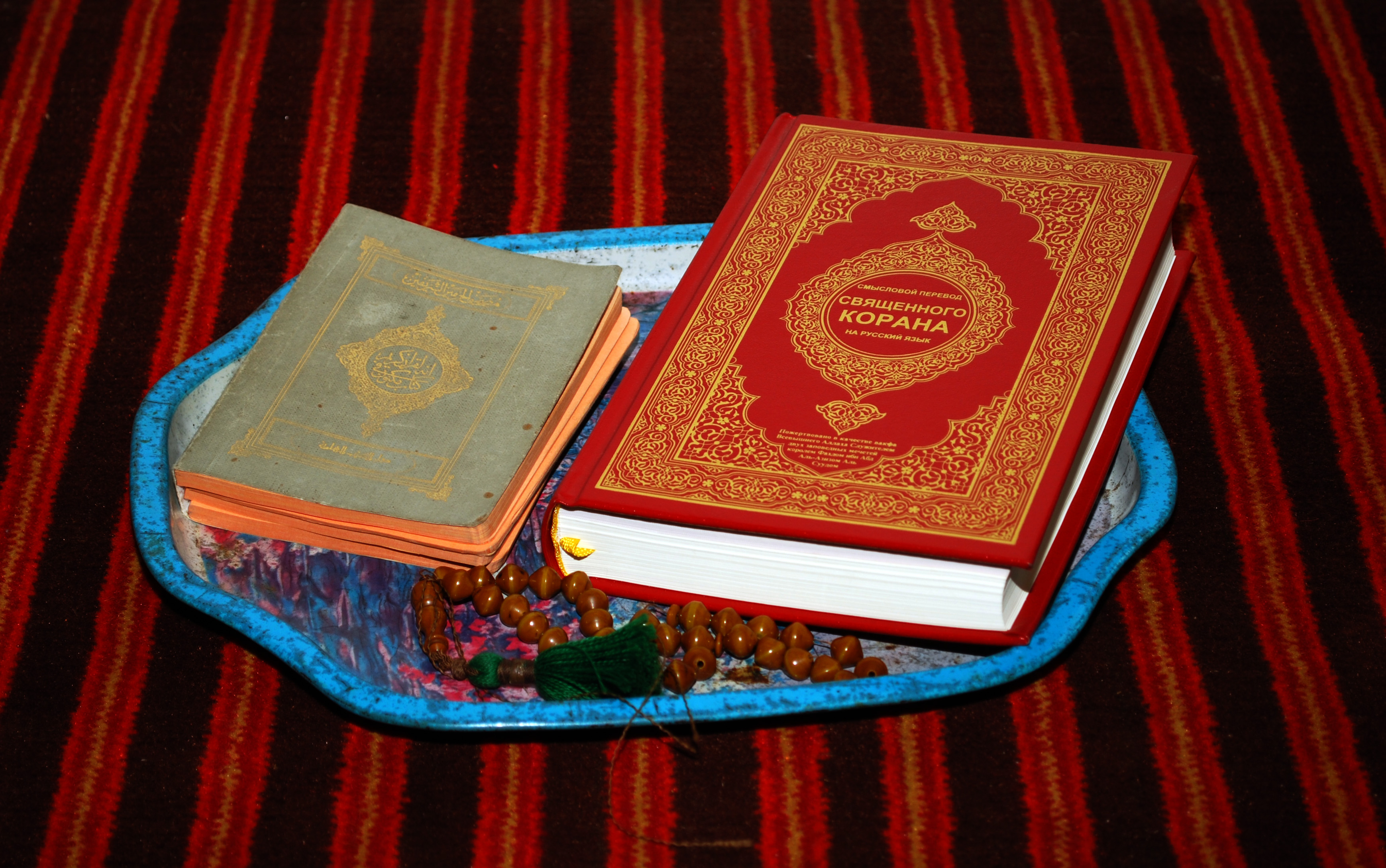 This photo from Podlaskie Voievodeship was taken during Polish Wikiexpedition 2009 set up by Wikimedia Polska Association. The making of this document was supported by Wikimedia Polska. Meczet w Kruszynianach - Koran po białorusku, modlitewnik i subha.